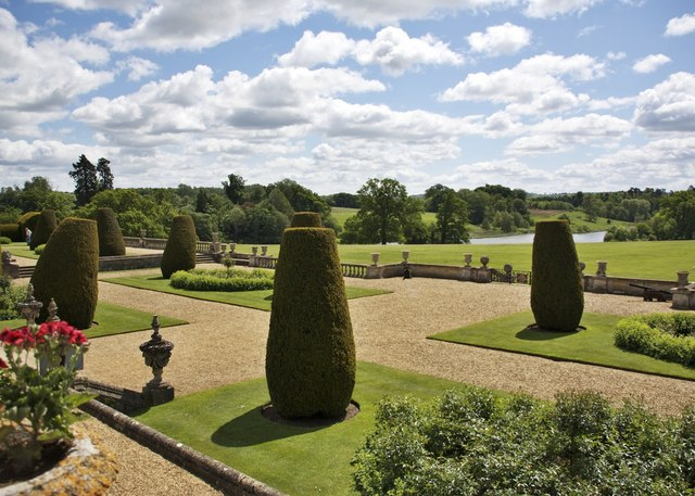 Bowood is the stately family home and gardens of the Marquis and Marchioness of Lansdowne. English landscape gardens designed by Lancelot "Capability" Brown. Building designed by Robert Adam in the 18th Century.